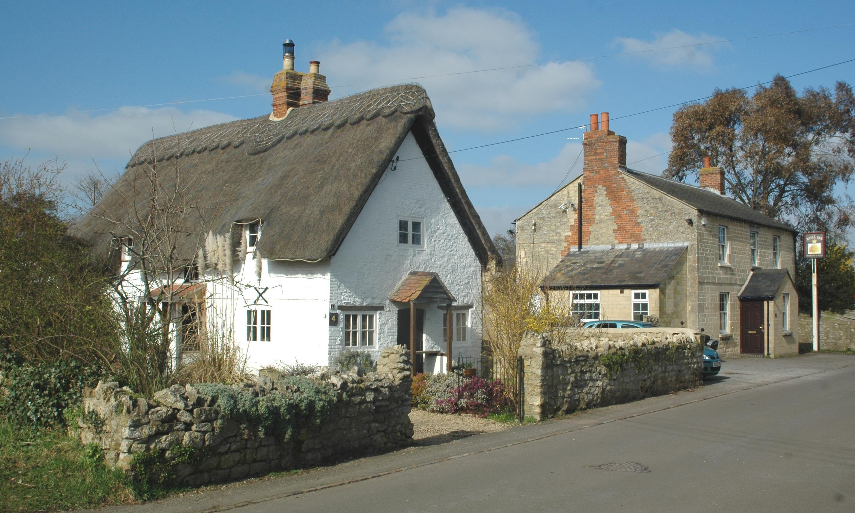 cottage at 4 Bridge Road and The Royal Oak public house, 2 Bridge Road, Worminghall, Buckinghamshire